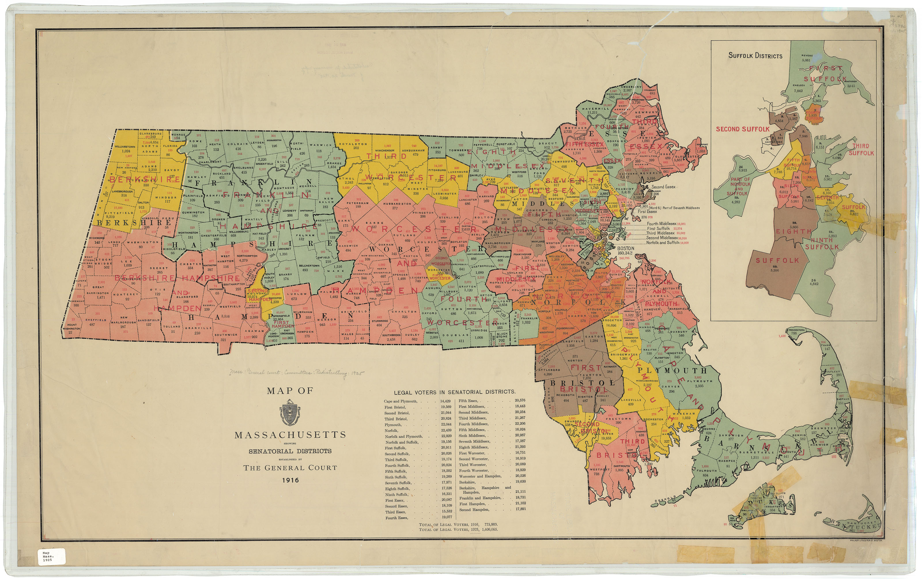 Map of districts of the Massachusetts state senate apportioned in 1916. The map includes 1925 voter population information. State senate districts depicted:[1] 1st Bristol district 1st Essex district 1st Hampden district 1st Middlesex district 1st Suffolk district 1st Worcester district 2nd Bristol district 2nd Essex district 2nd Hampden district 2nd Middlesex district 2nd Suffolk district 2nd Worcester district 3rd Bristol district 3rd Essex district 3rd Middlesex district 3rd Suffolk district 3rd Worcester district 4th Essex district 4th Middlesex district 4th Suffolk district 4th Worcester district 5th Essex district 5th Middlesex district 5th Suffolk district 6th Middlesex district 6th Suffolk district 7th Middlesex district 7th Suffolk district 8th Middlesex district 8th Suffolk district 9th Suffolk district Berkshire district Berkshire, Hampshire and Hampden district Cape and Plymouth district Franklin and Hampshire district Norfolk district Norfolk and Plymouth district Norfolk and Suffolk district Plymouth district Worcester and Hampden district